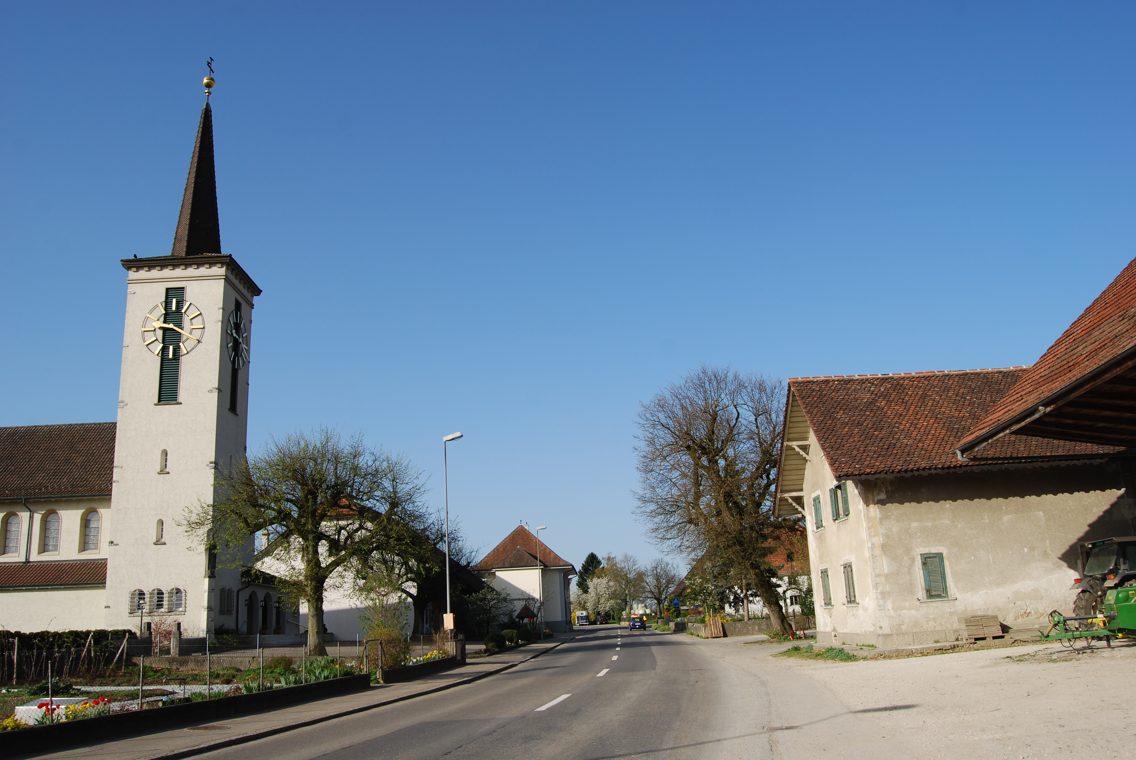 Niederbuchsiten, canton of Solothurn, SwitzerlandEsperanto: Niederbuchsiten, Kantono Soloturno, Svislando